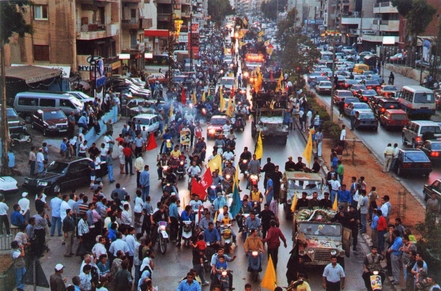 Hezbollah members and supporters at a parade following the end of Israel's occupation of southern Lebanon.